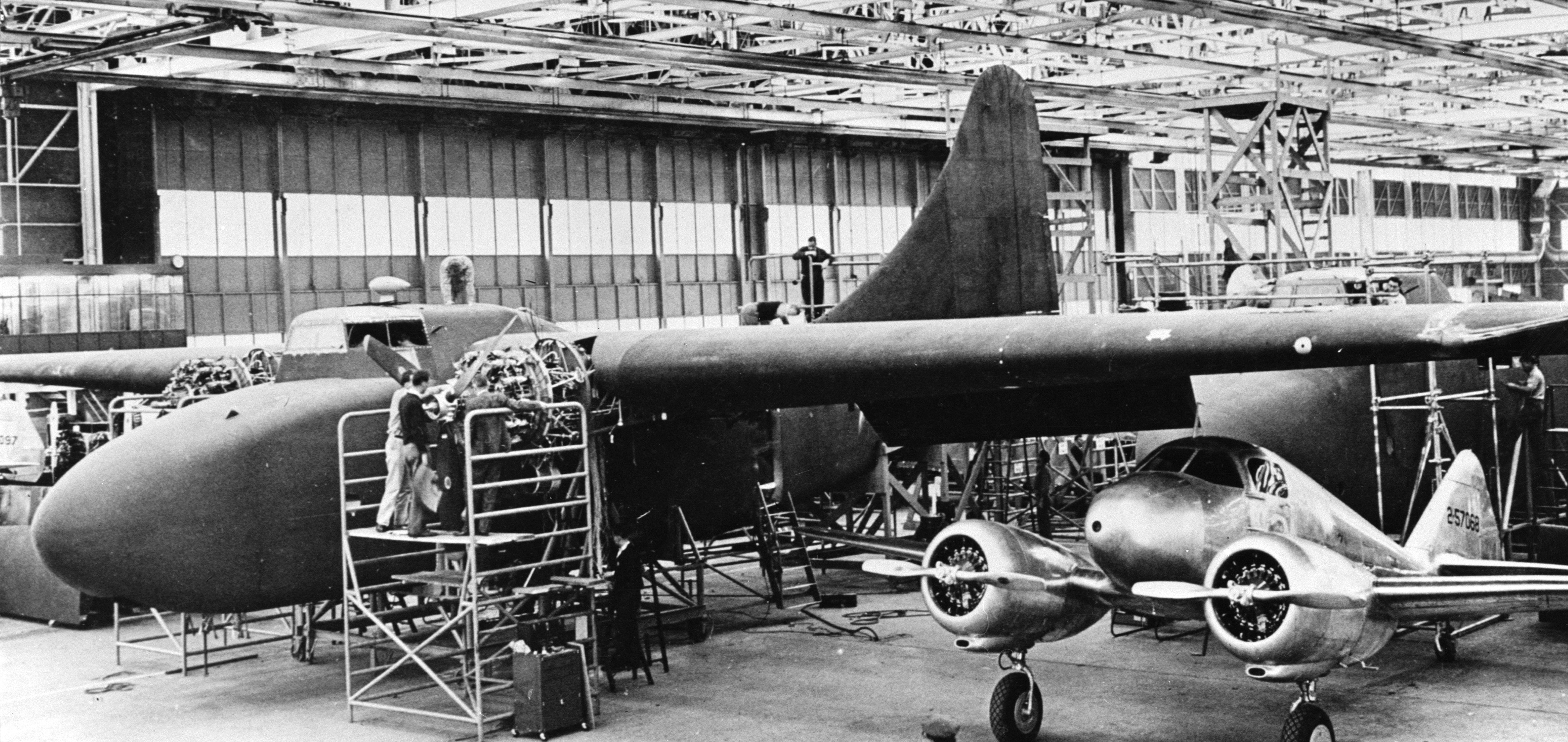 Production of USAAF C-76 Caravan transport planes at Curtiss-Wright in 1943. The plane in the foreground is a Curtiss AT-9A Jeep trainer (s/n 42-57068).